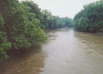 The Walhonding River at Coshocton, Ohio, 2 July 2004.